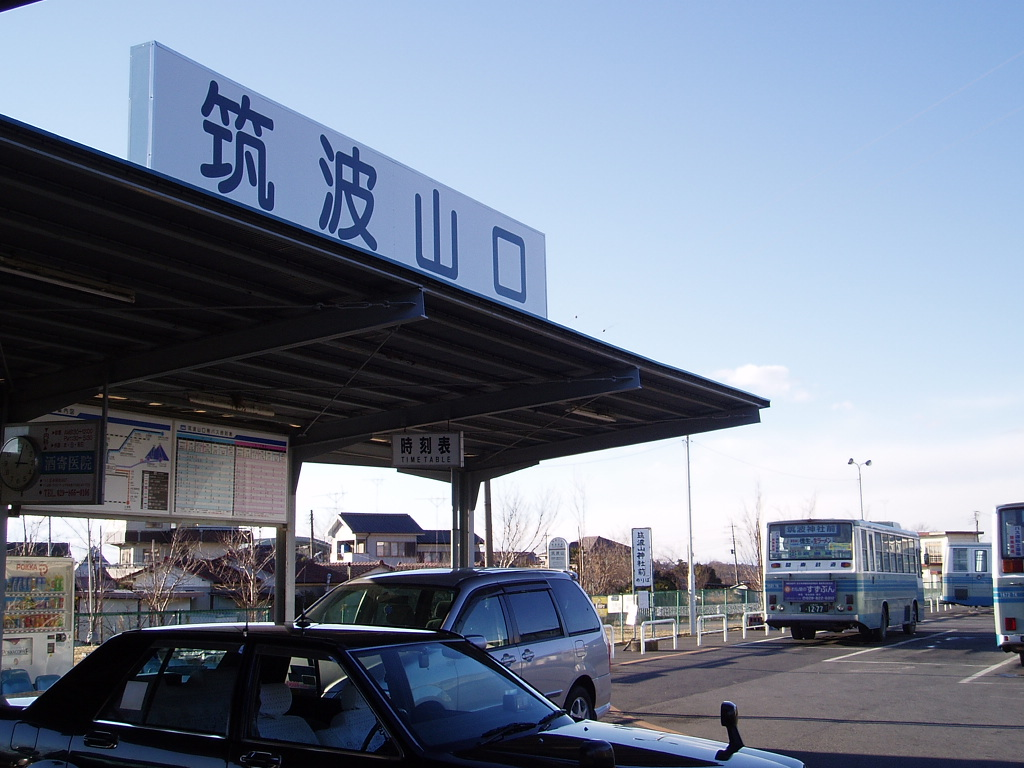 Tsukubasanguchi (Tsukuba Railway Tsukuba Station Ruins)